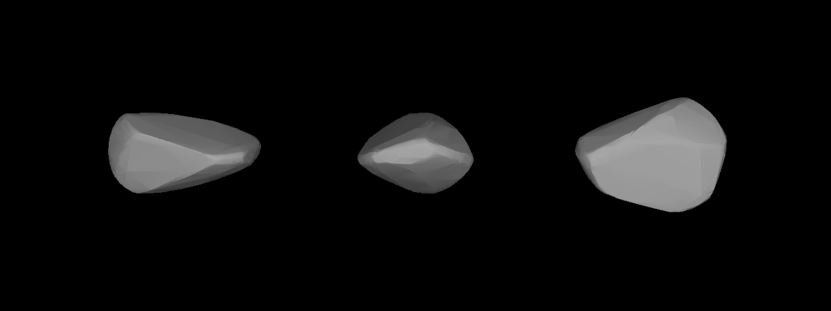 A three-dimensional model of 484 Pittsburghia that was computed using light curve inversion techniques.